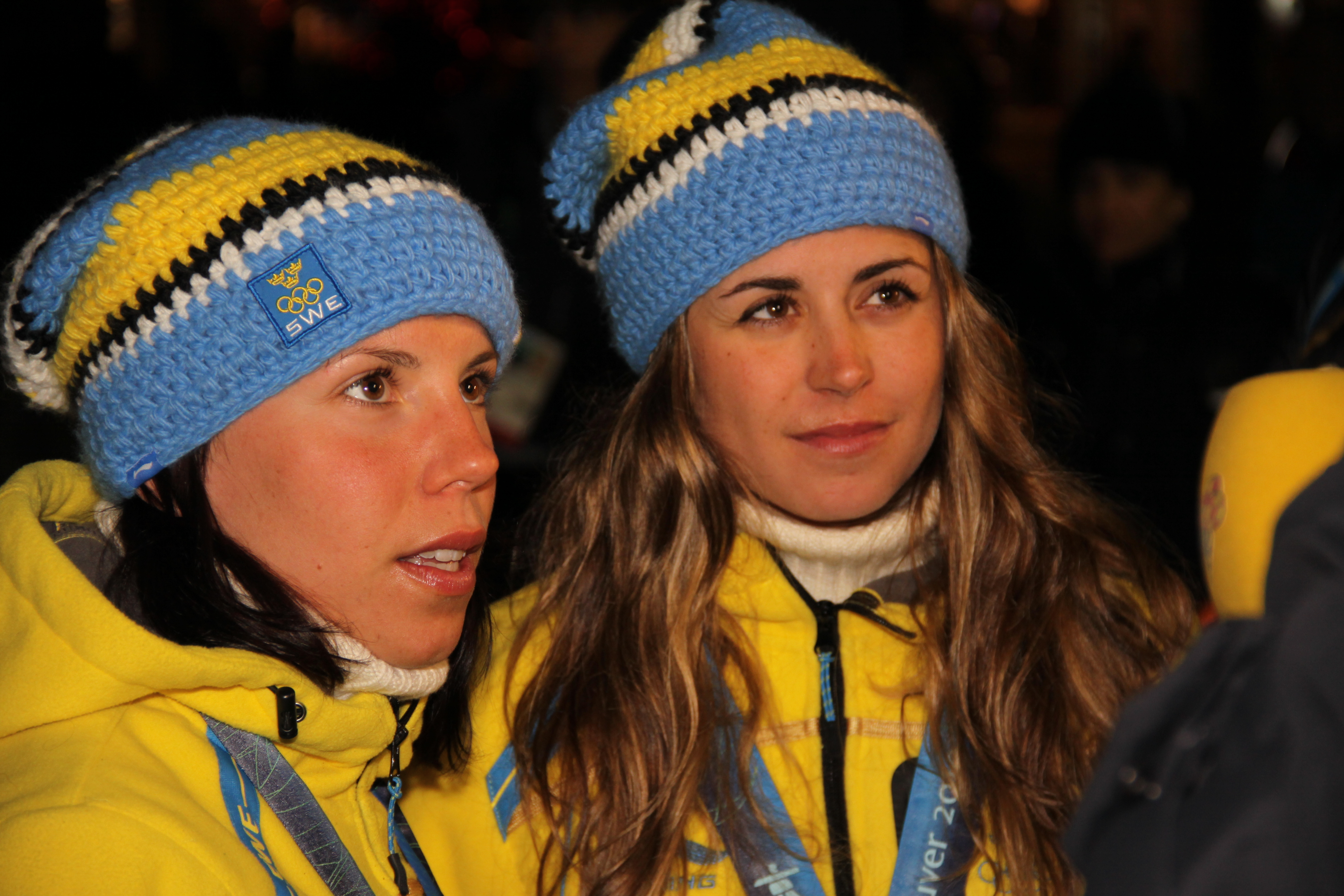 Swedes Charlotte Kalla (left) and Anna Haag, Gold and Silver medalists in the Cross-Country Skiing - Ladies' 10 km Free event, at the 2010 Vancouver Olympics Winter Games at the Whistler venue